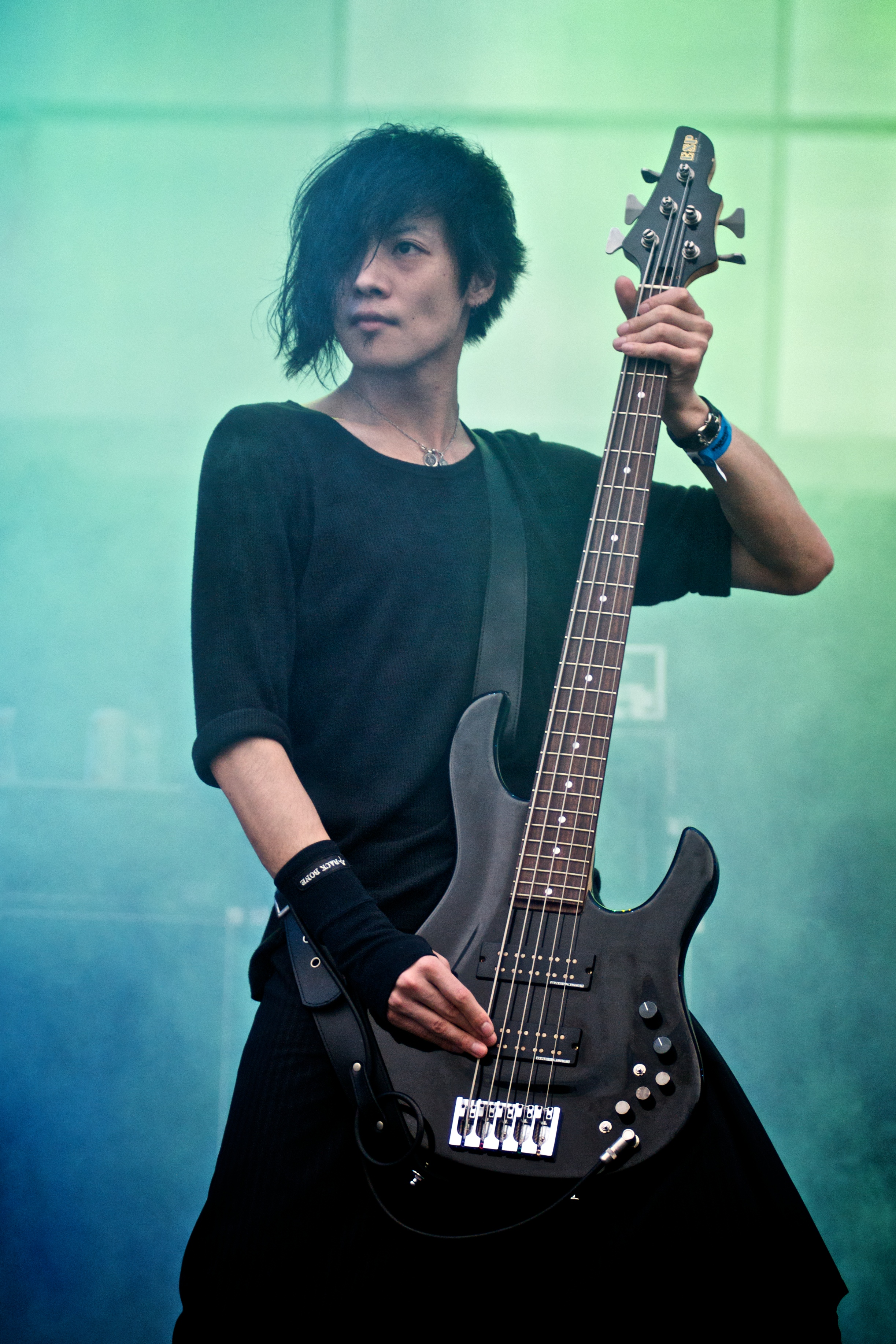 Dir En Grey in Maquinária Festival, occurred in November 8 2009 at São Paulo, Brazil.